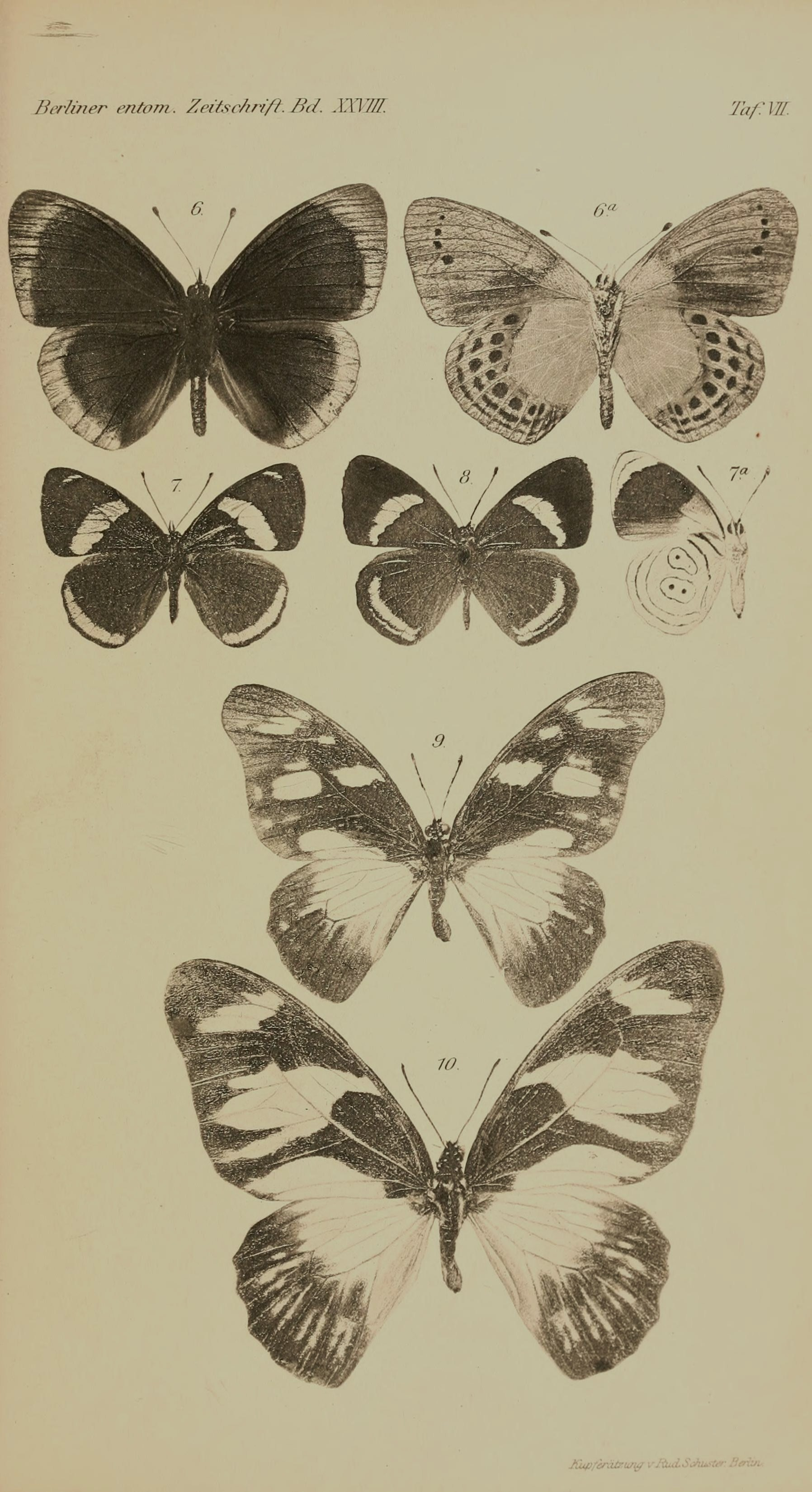 Honrath, 1884 Neue Rhopalocera [1] Berl. ent. Z. 28 (1) : 203-212 Taf VII 6, 6a Callithea srnkai Honrath 1884 synonym for Asterope whitelyi srnkai Honrath 1884 7, 7a Callicore panthalis synonym for Diaethria nystographa panthalis (Honrath, 1884) 8 Callicore merida synonym for Diaethria neglecta merida (Honrath, 1884) 9 Papilio almansor synonym for Graphium almansor (Honrath, 1884) 10 Papilio poggianus synonym for Graphium poggianus (Honrath, 1884)